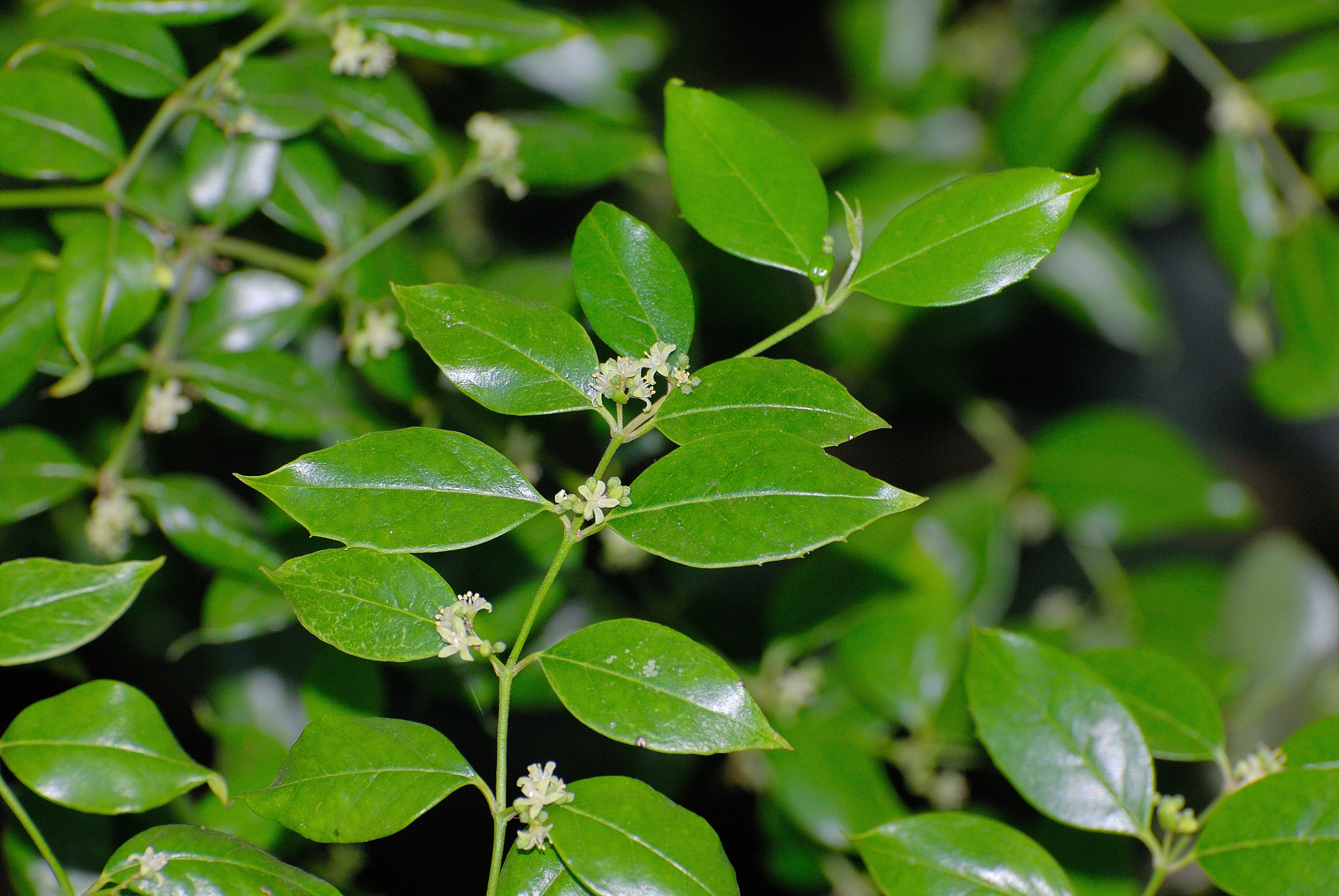 Flowers of a Lemon thorn at Jan Celliers Park, Pretoria